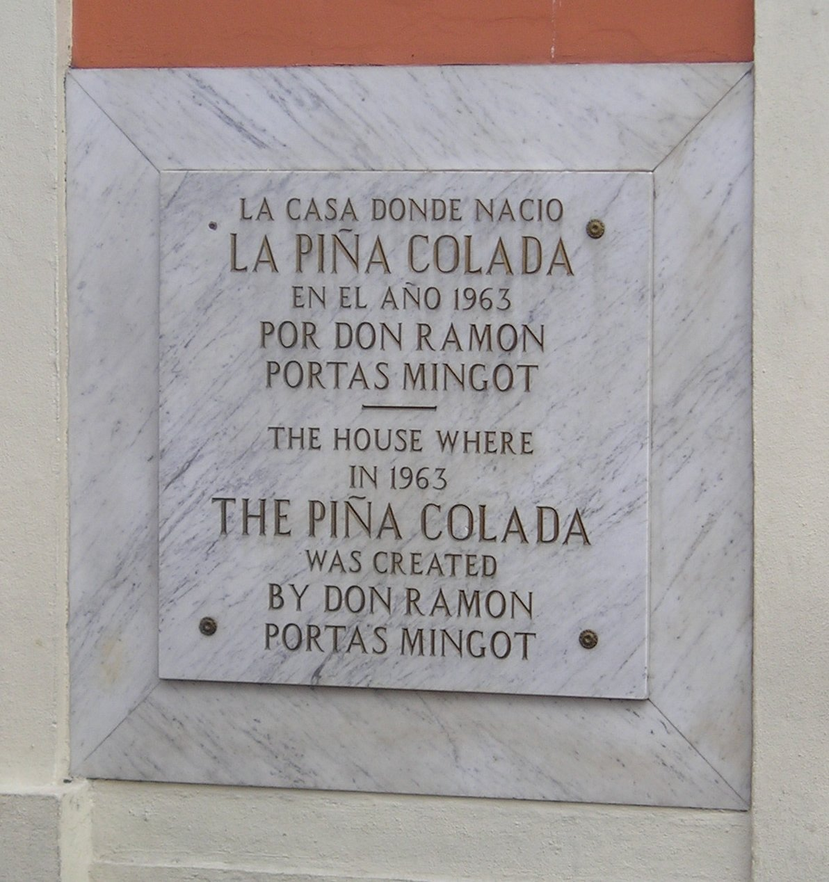 Piña Colada plate in Old San Juan, Puerto Rico.